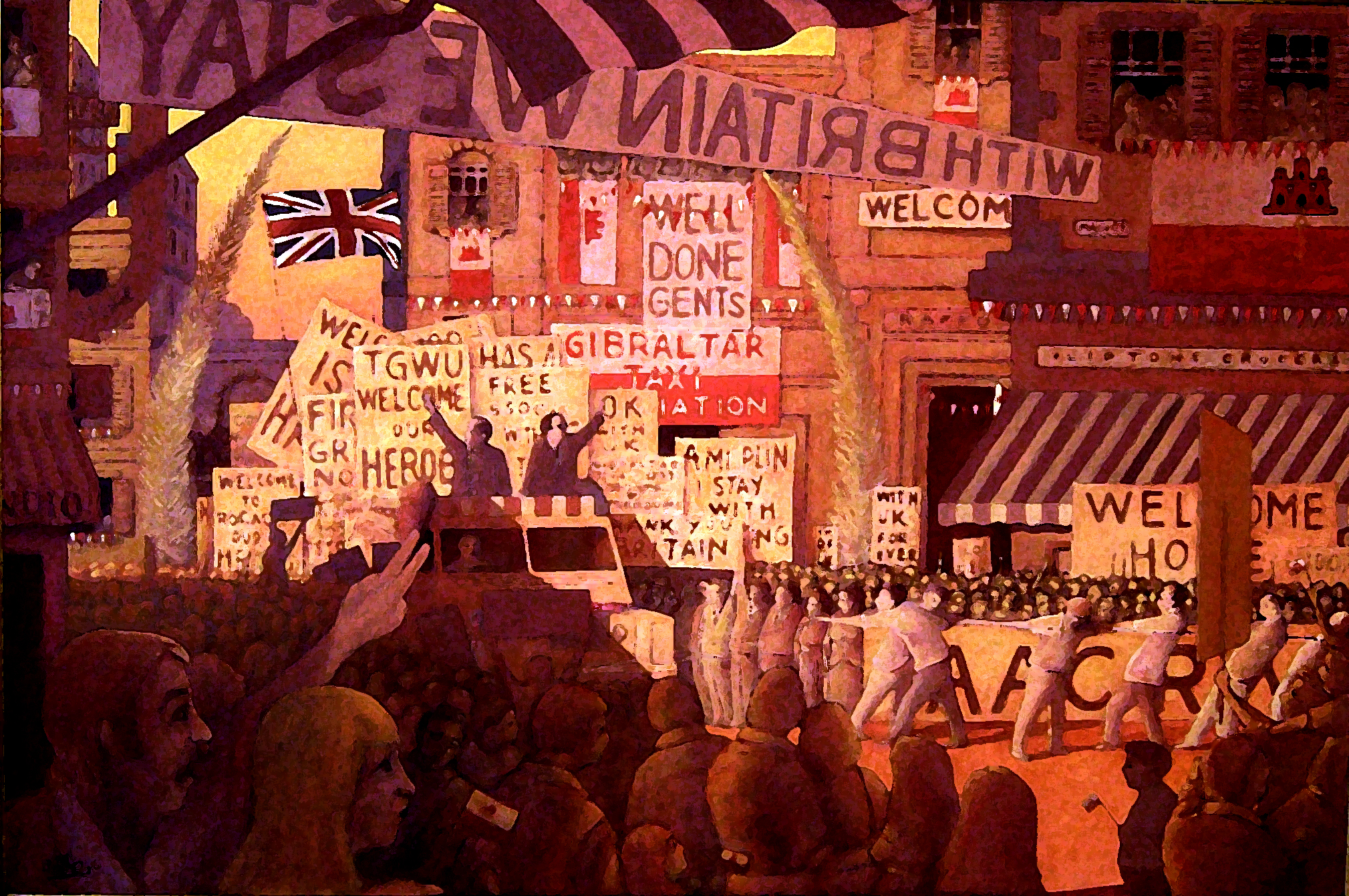 the file is an image of a painting made by ambrose avellano